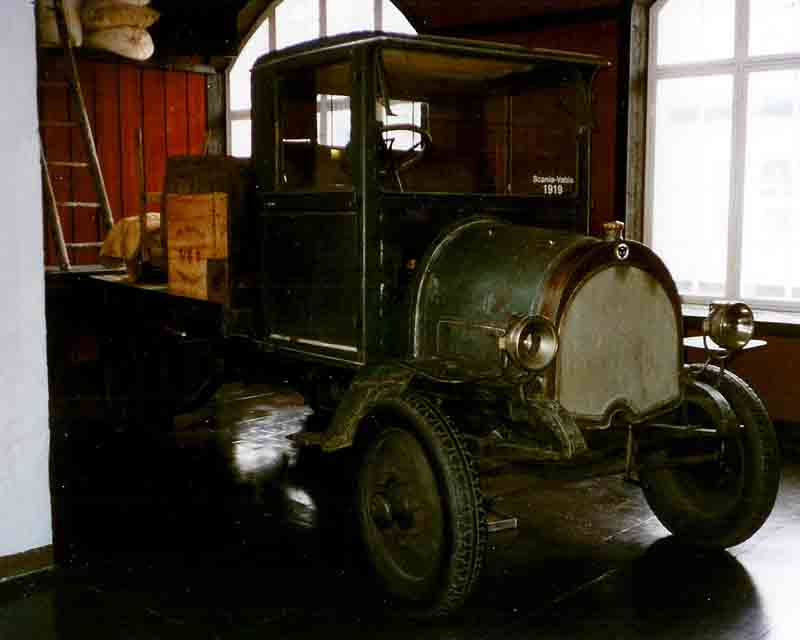 Scania-Vabis CLc Truck 1919